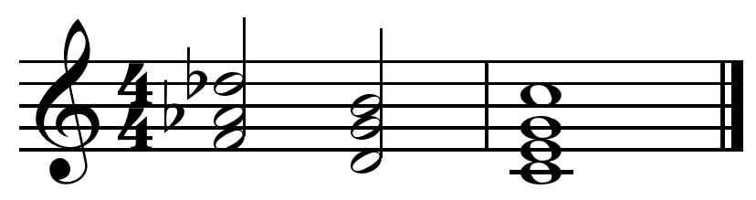 ♭II6-V 4 6 {\displaystyle _{4}^{6 -I